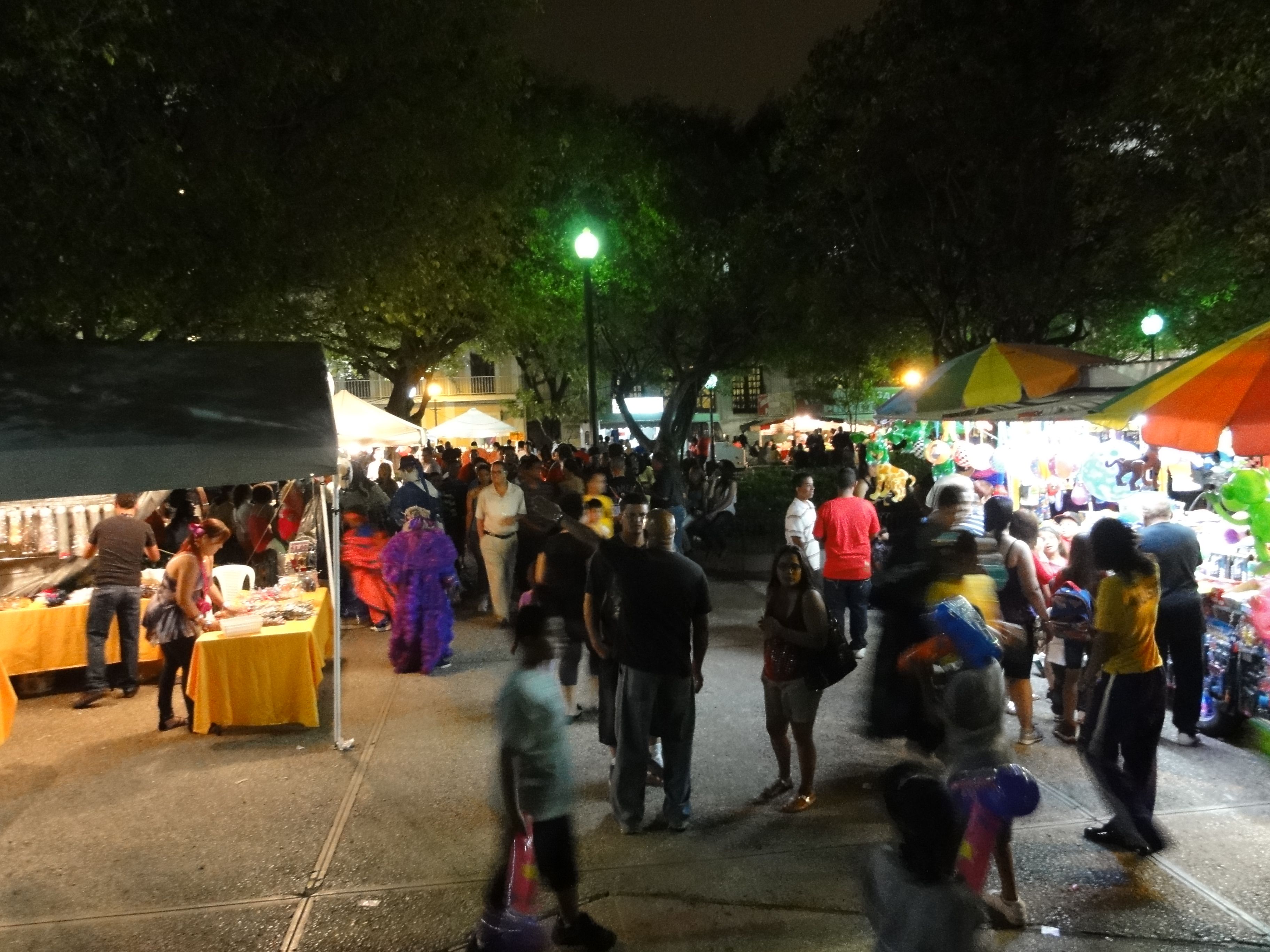 Feria de Artesanías de Ponce 2018, Plaza Las Delicias, Bo. Segundo, Ponce, Puerto Rico, mirando el este (DSC02477X)